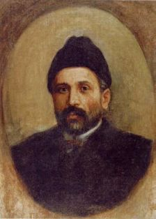 Portraits Dimitar Matevski (1835 - 1882) by George Danchov (1846-1908)